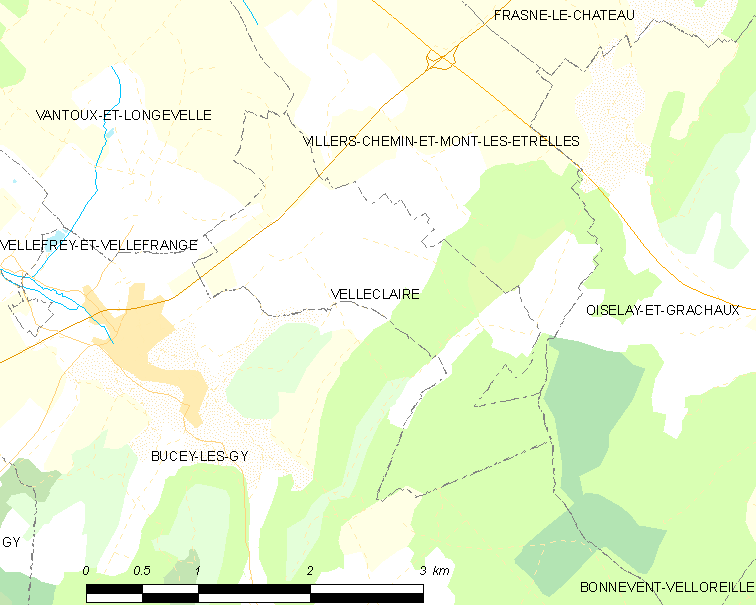 Map of French municipality